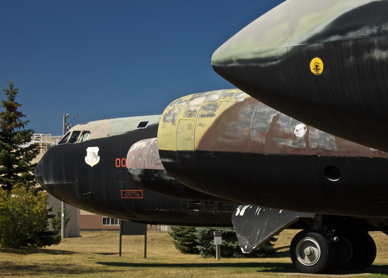 A weathered, retired Boeing B-52 Stratofortress bomber stands outside on grass. It is part of a small collection of aircraft commemorating the former K. I. Sawyer Air Force Base near Gwinn, Michigan.